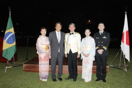 Embassy of Japan in Brasilia in celebration of the Self-Defense Forces Day on July 1, 2015.